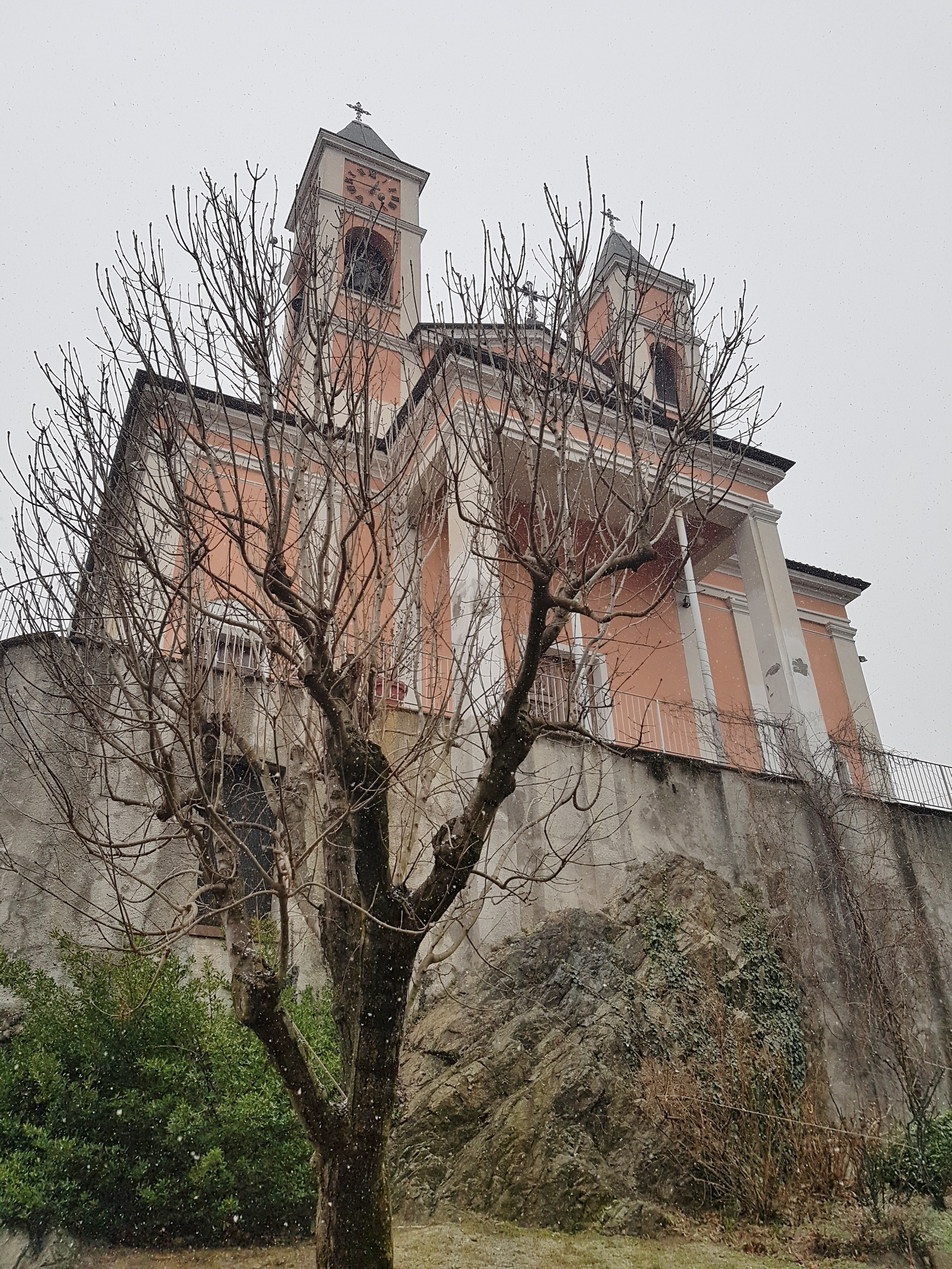 Saint Christopher Parish Church, Banchette, Northern Italy